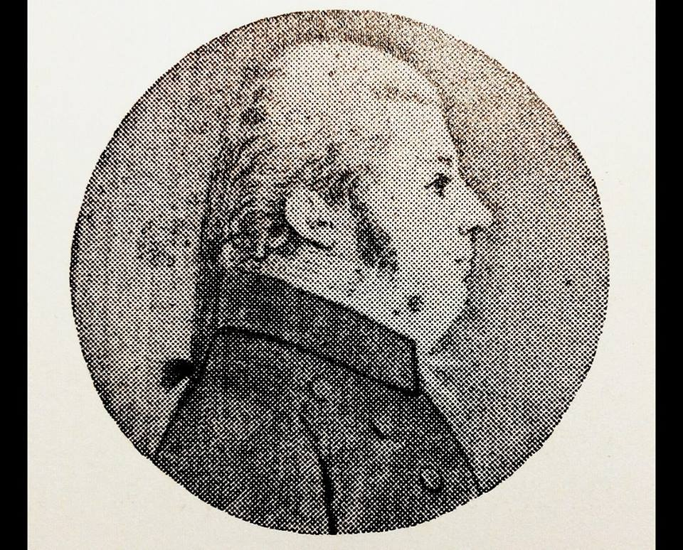 Norbertus Vincentius Augustinus van WAESBERGHE